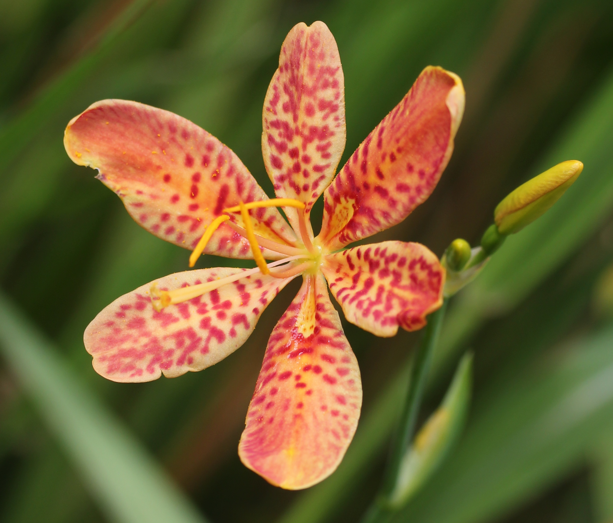 Iris domestica in Mount Ibuki, Maibara Shiga prefecture, Japan.